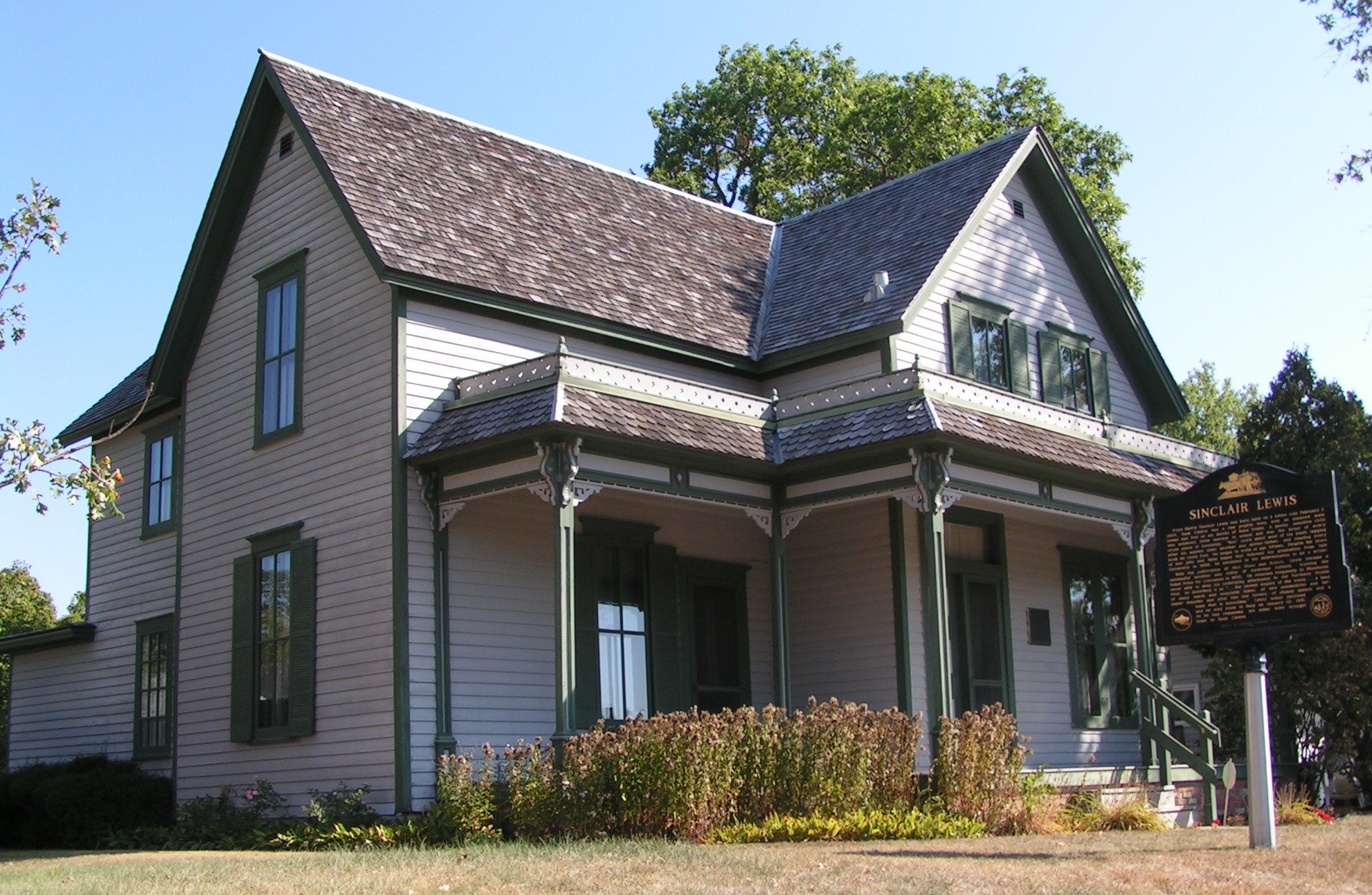 Boyhood home of American author Sinclair Lewis in Sauk Centre. Lewis was awarded the Nobel Prize for literature in 1930, becoming the first American to be so honored. His novel Main Street was partly based on his impression of Sauk Centre.